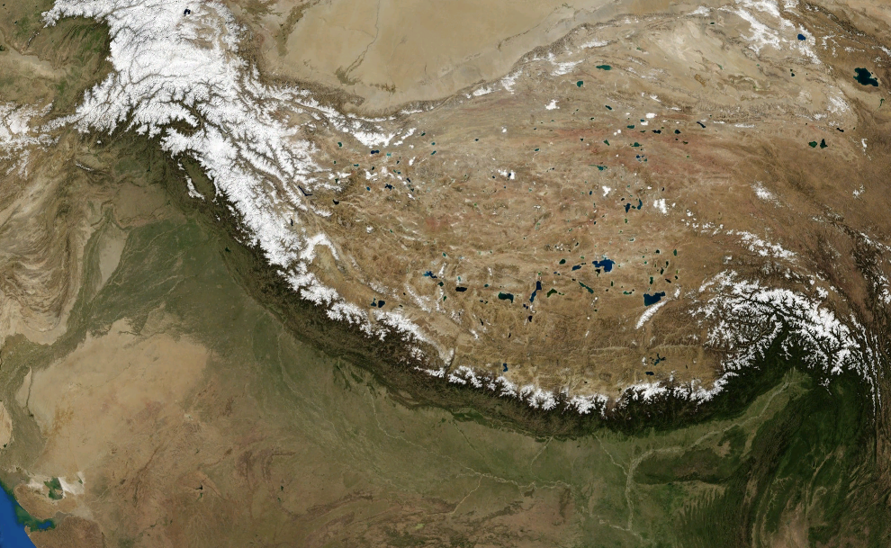 Himalayas as pictured by NASA Landsat 7 Satellite. Other Versions: thumb|120px|left|Added Territorial Boundaries